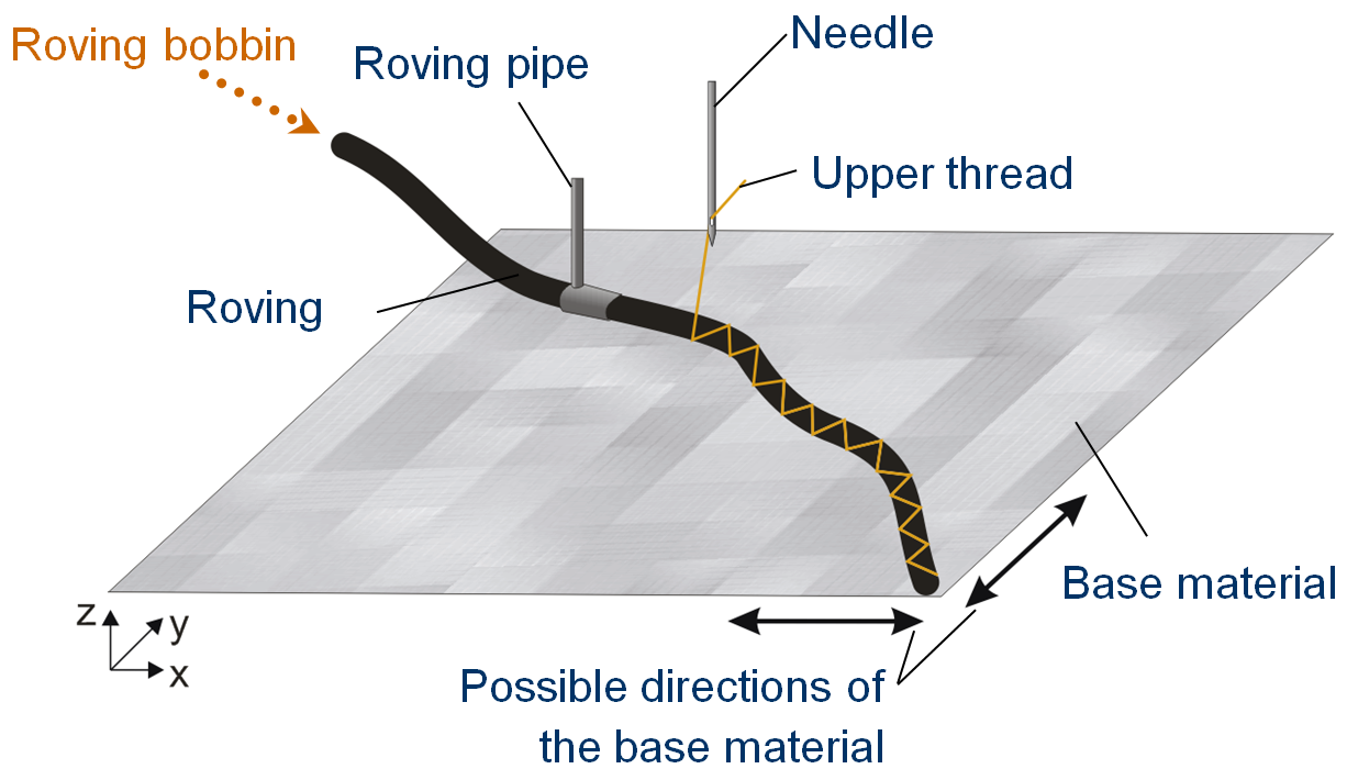 The sketch shows the princple of the tailored fiber placement manufacturing process